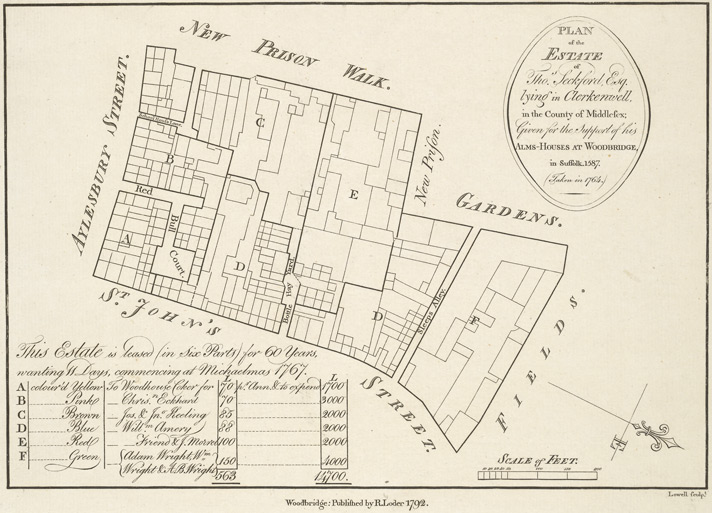 PLAN of the ESTATE of Thos Seckford, Esq. Lying in Clerkenwell, in the County of Middlesex; Given for the Support of his ALMS -HOUSES AT WOODBRIDGE, in Suffolk. 1587. (Taken in 1764)